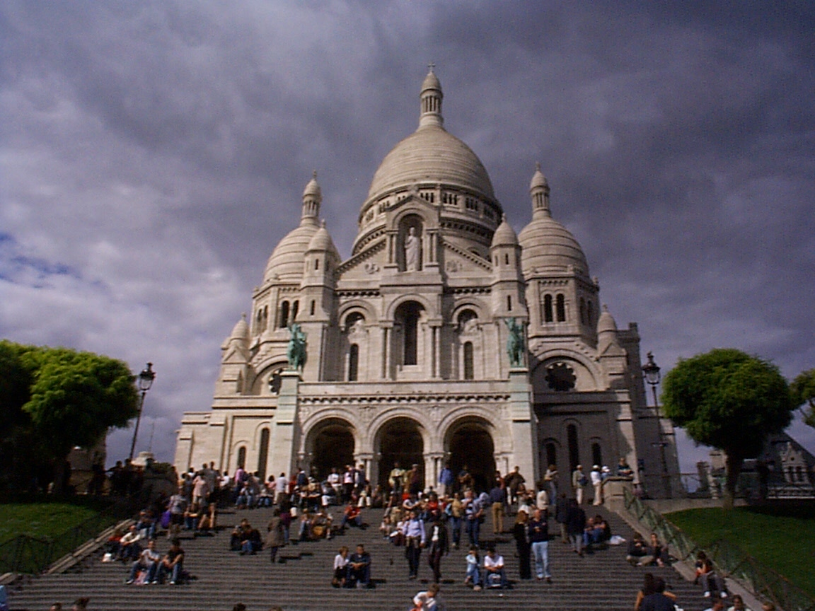 he:תמונה:Sacre Couer